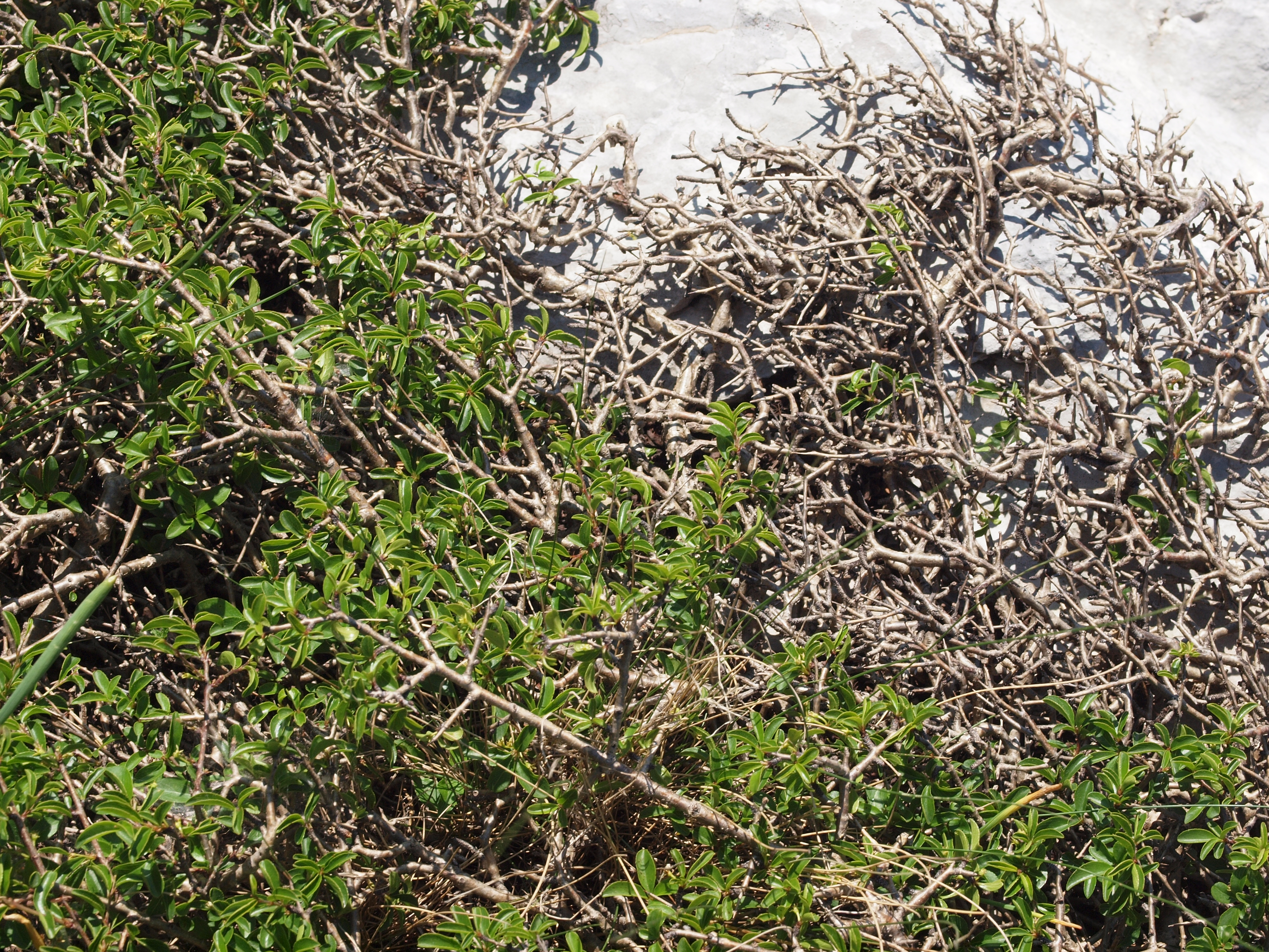 chasmophytic oromediterranean flora, Orjen, Montenegro